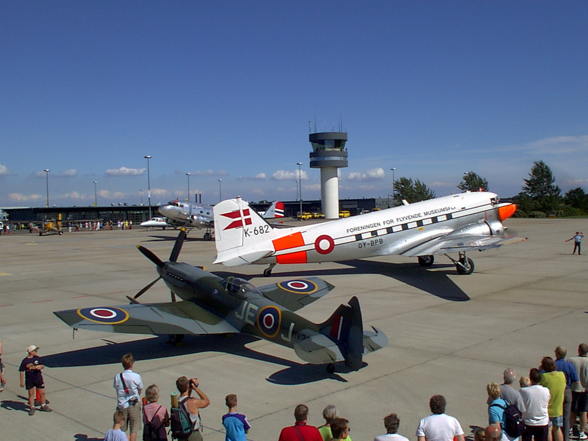 DC-3 and Supermarine Spitfire, Roskilde Veteranflyshow 2001.